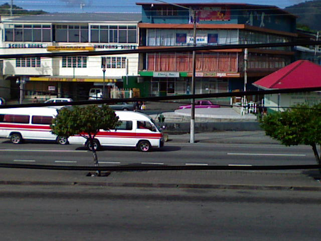 Picture of San Juan Promenade, Trinidad, West Indies